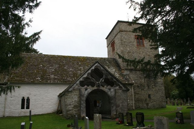 St Cewydd's Church, Aberedw St Cewydd's Church, Aberedw. Nothing I can say other than it is old but you can read more in the link.